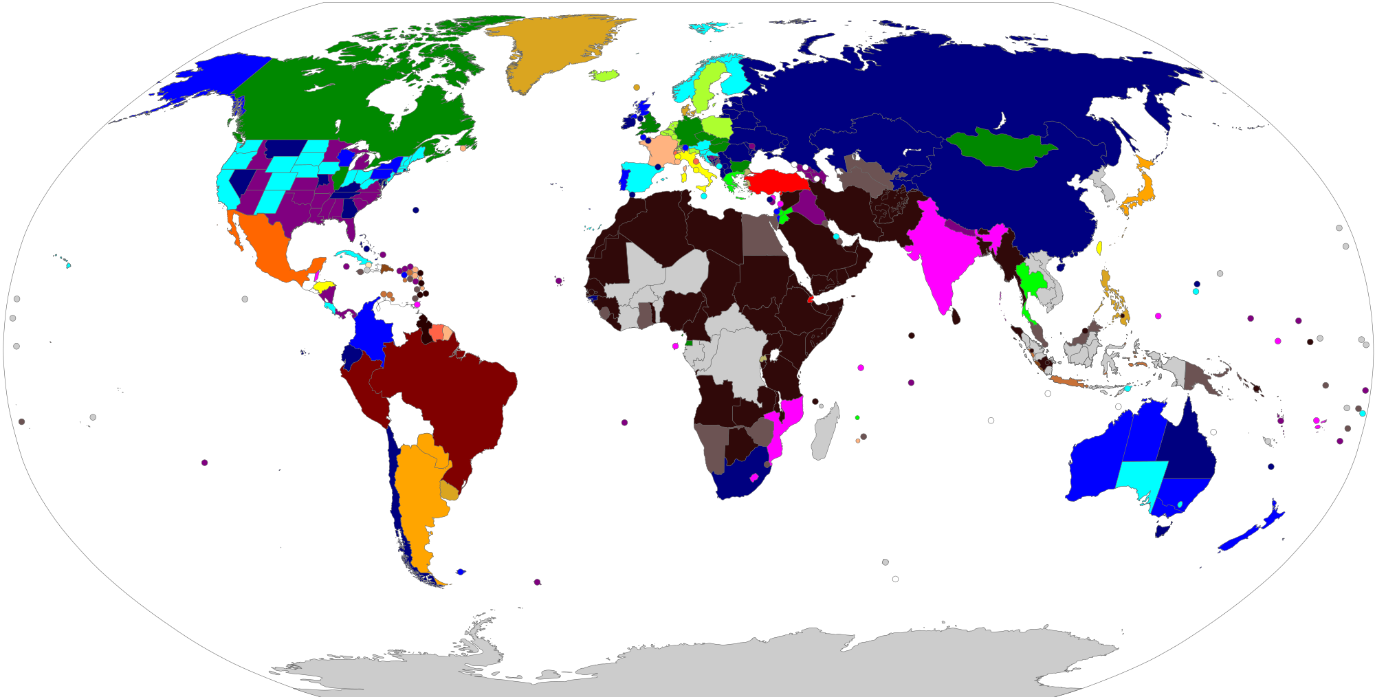 Timeline map of the date of countries that repealed laws against homosexuality. 1790–1799 1800–1819 1820–1829 1830–1839 1840–1859 1860–1869 1870–1879 1880–1889 1890–1909 1910–1919 1920–1929 1930–1939 1940–1949 1950–1959 1960–1969 1970–1979 1980–1989 1990–1999 2000–2009 2010-present Unknown date of legalization of same-sex intercourse Same-sex sexual intercourse always legal Male same-sex sexual intercourse illegal Same-sex sexual intercourse illegal